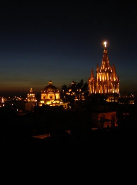 San Miguel de Allende, Mexico at night time. San Miguel de Allende is one of the host cities of the international film festival Expresion en Corto.